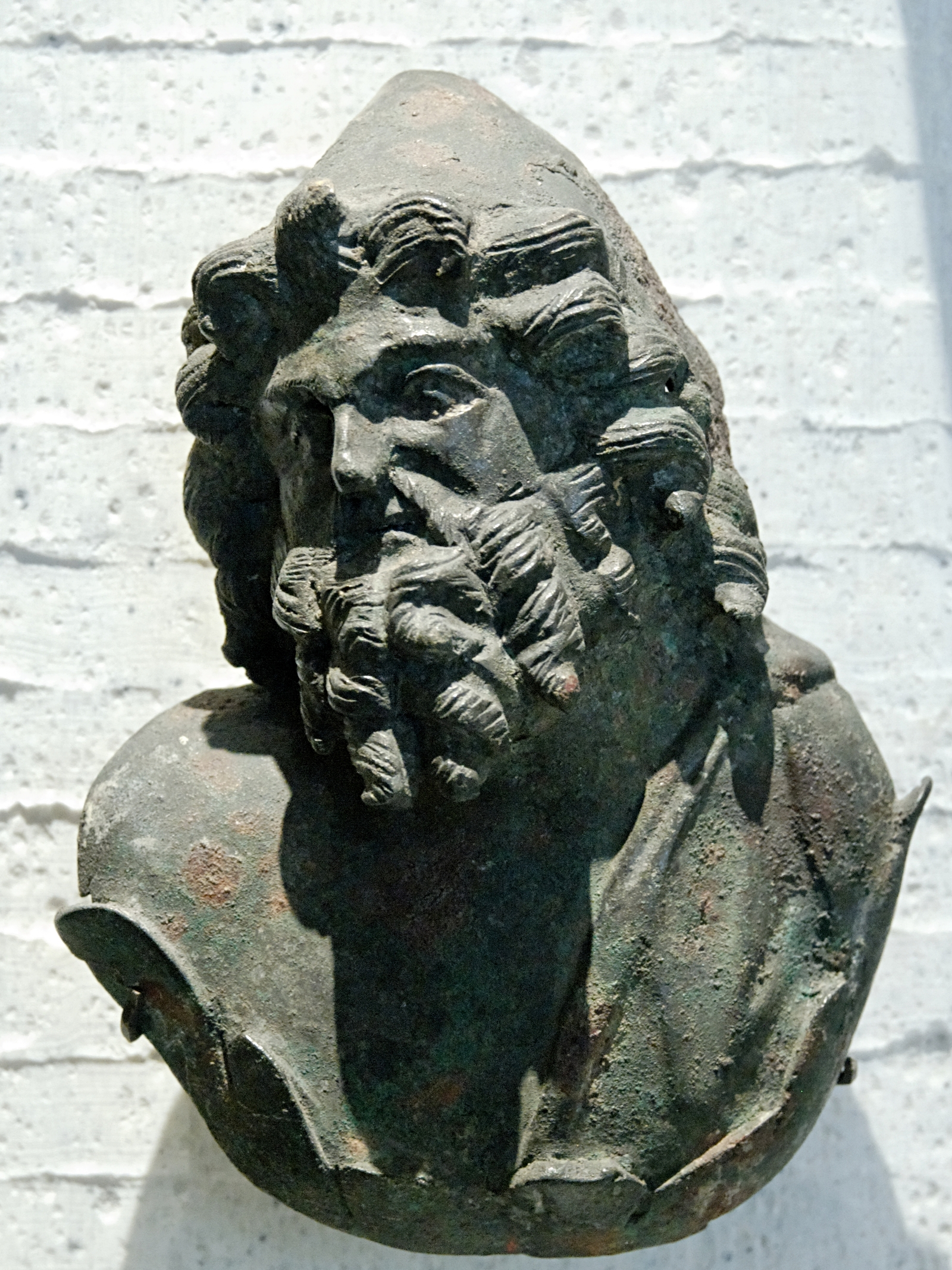 Bust of Vulcan wearing the pilos (conical hat). Roman bronze applique, first half of the 2nd century AD. From Sens, Burgundy, France.